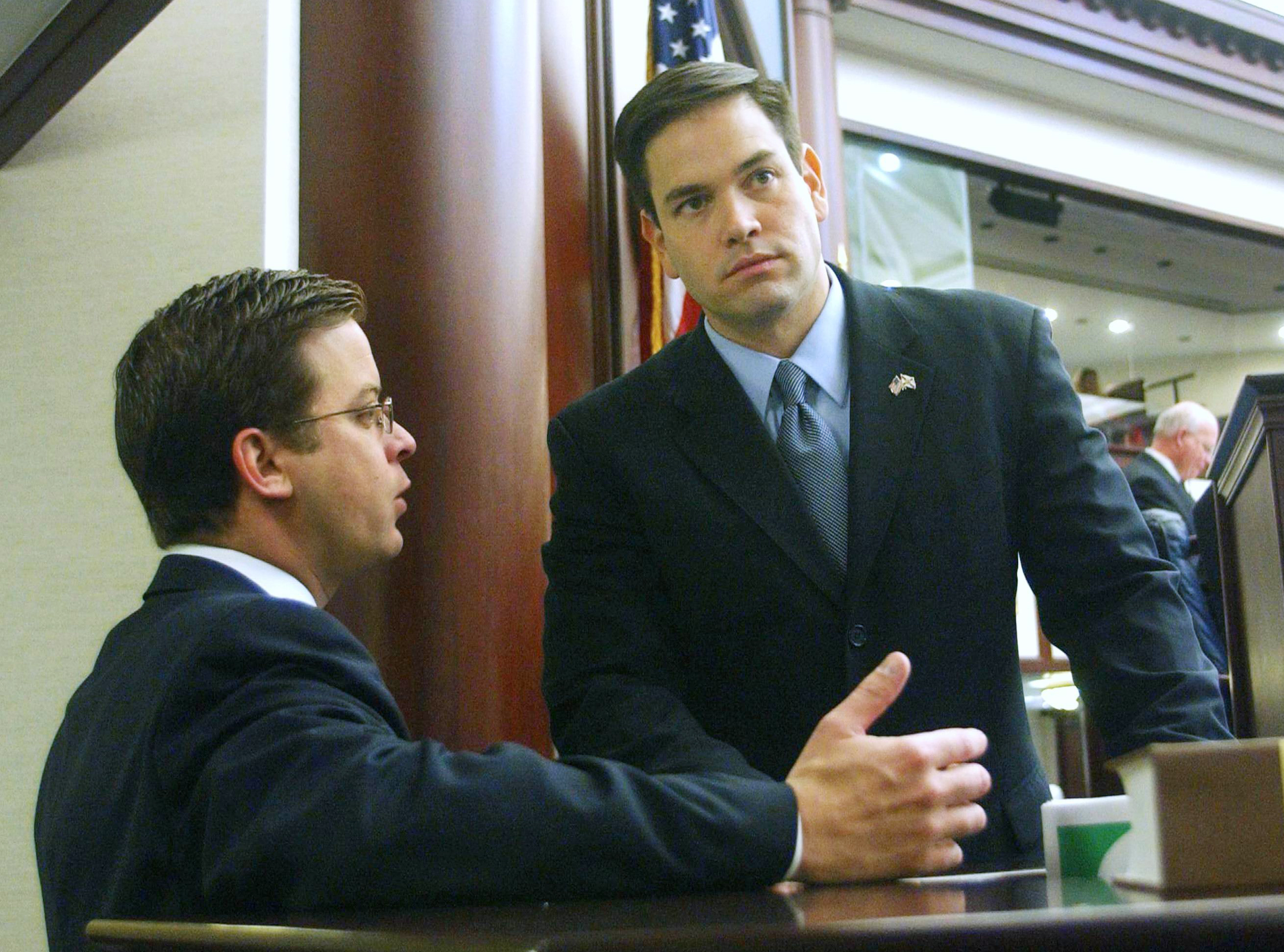 Rep. Carlos Lopez-Cantera, R-Miami, left, confers with Speaker Marco Rubio, R-Miami, on the House floor April 24, 2007, in Tallahassee, Florida.